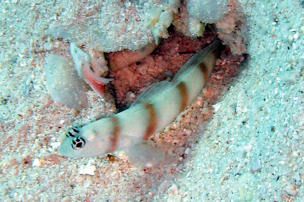 Amblyeleotris steinitzi near Sharm El-Sheick